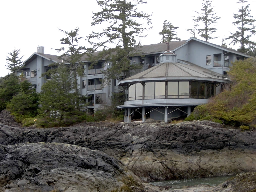 The upscale Wickaninnish Inn stands on a rocky point at the north end of Chesterman Beach, Tofino, BC.